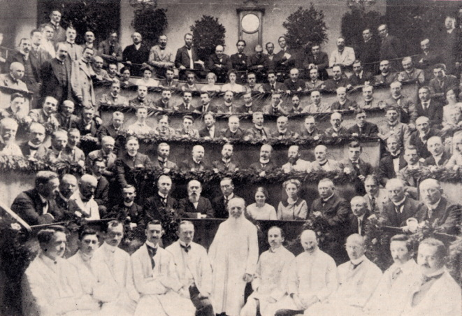 Ludwig Lichtheim, German professor of internal medicine at the University of Königsberg, was discharged in 1912.